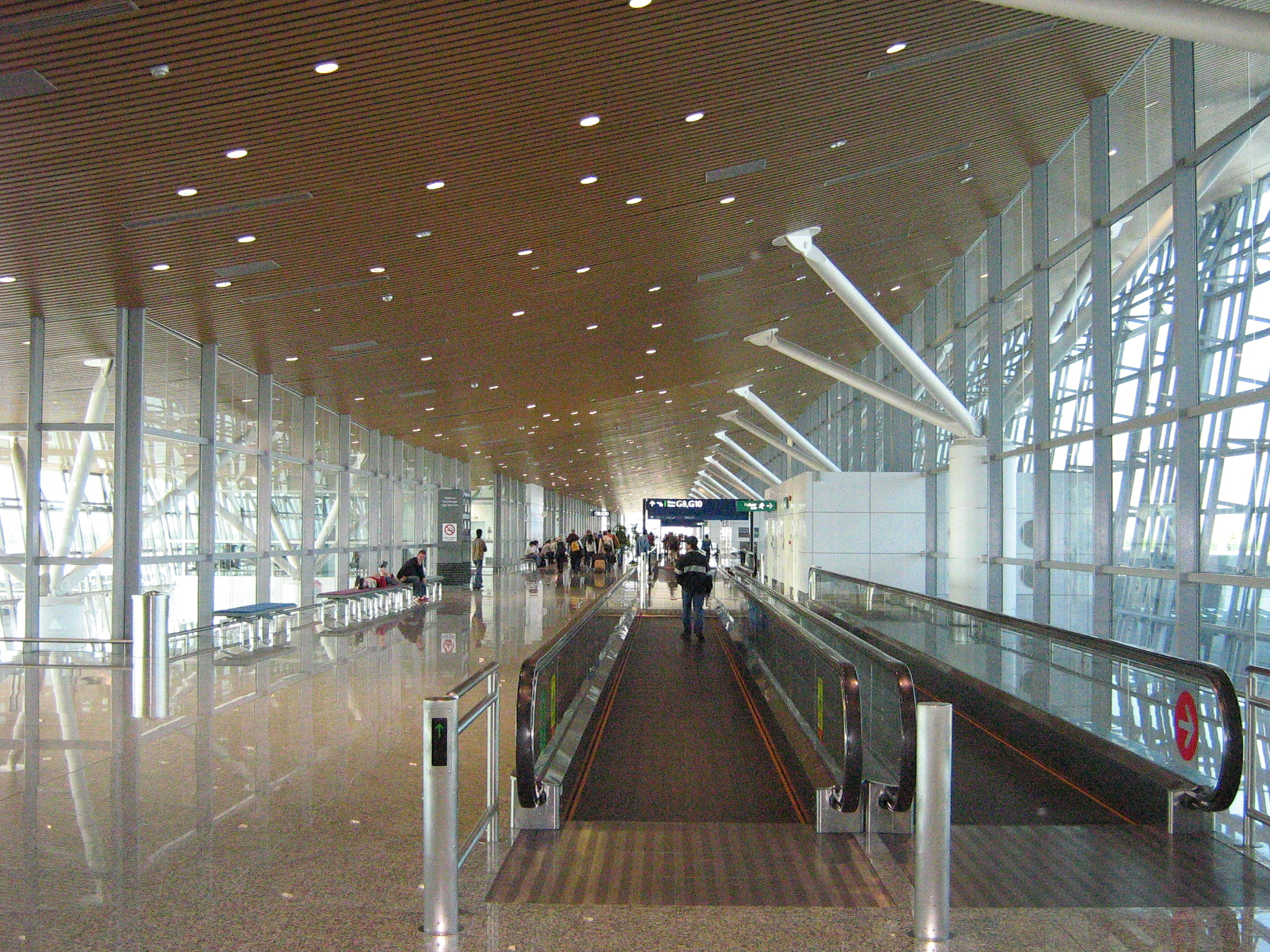 Contact Pier-building at KLIA